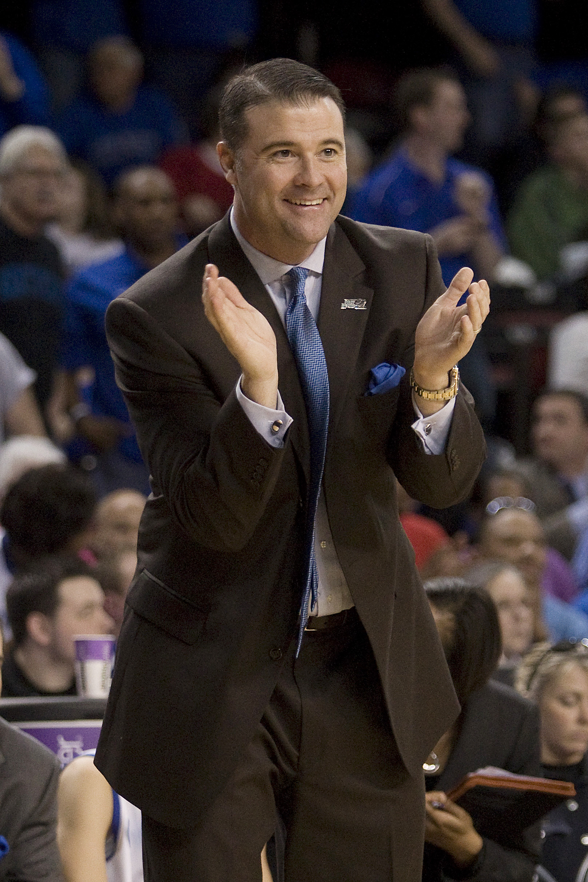 Head Coach Matthew Mitchell, on the sidelines at the Kentucky-Liberty NCAA first round game, 20 March 2010. Taken by Chet White.